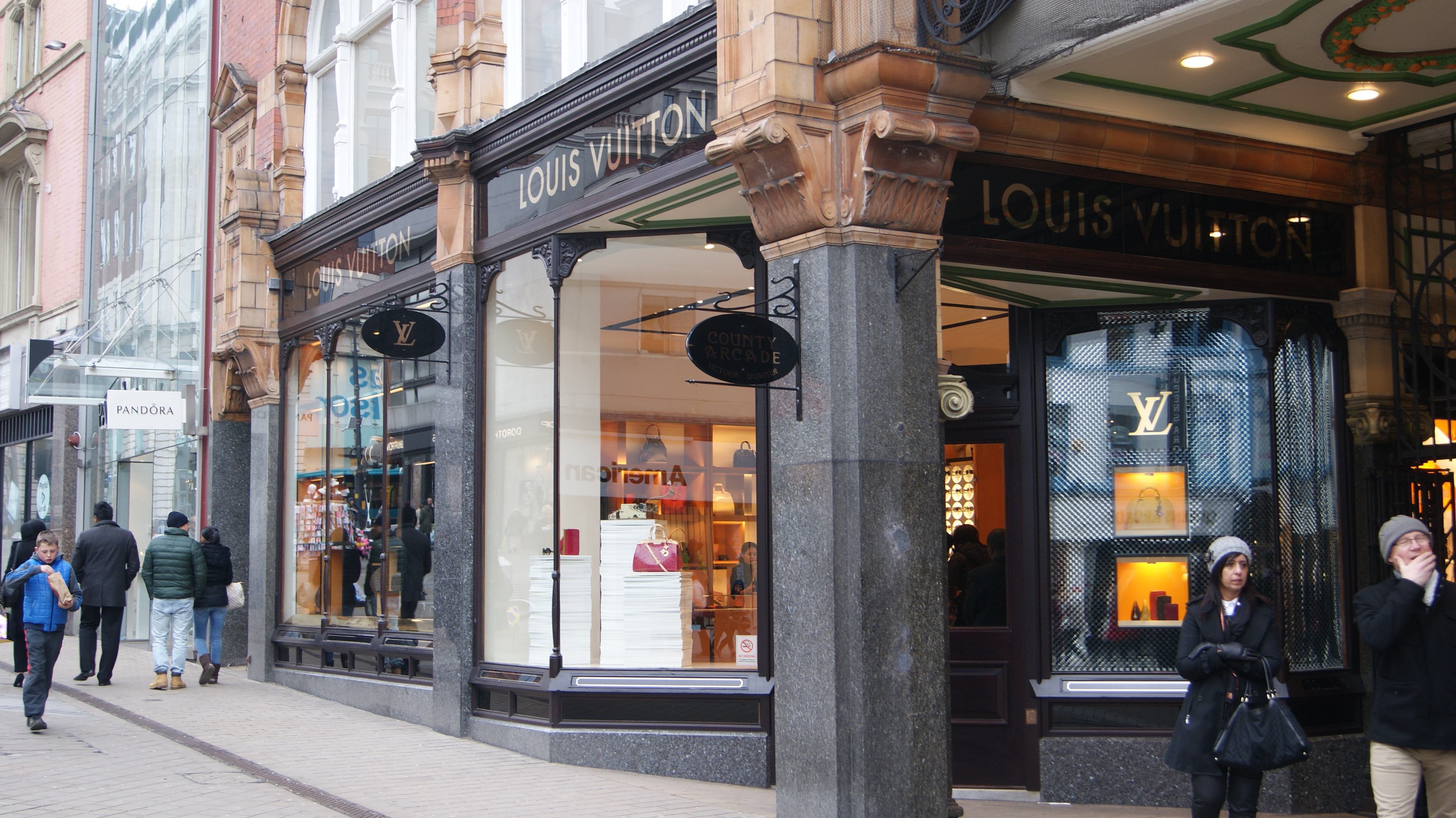 Louis Vuitton, Briggate, Leeds, West Yorkshire. Taken on the afternoon of Wednesday the 20th of February 2013)